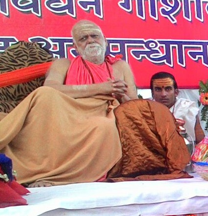 H.H Jagadguru Swami Nischalananda Saraswati , The Shankaracharya of Puri